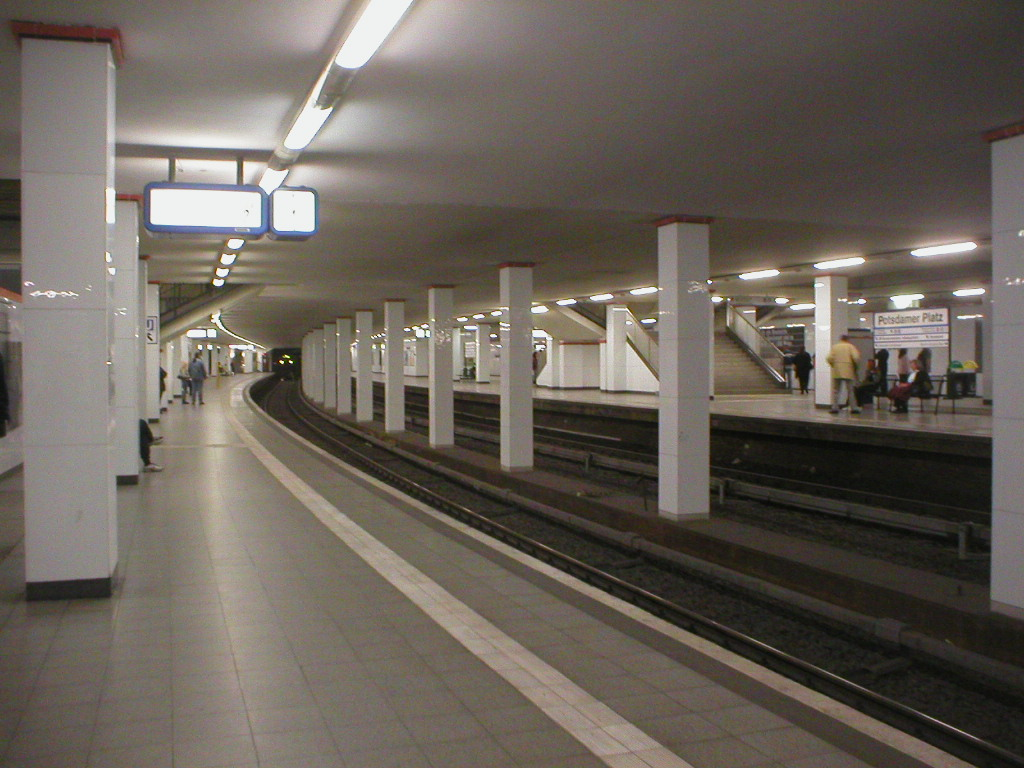 Berlin's S-Bahn station Potsdamer Platz, Berlin, Germany